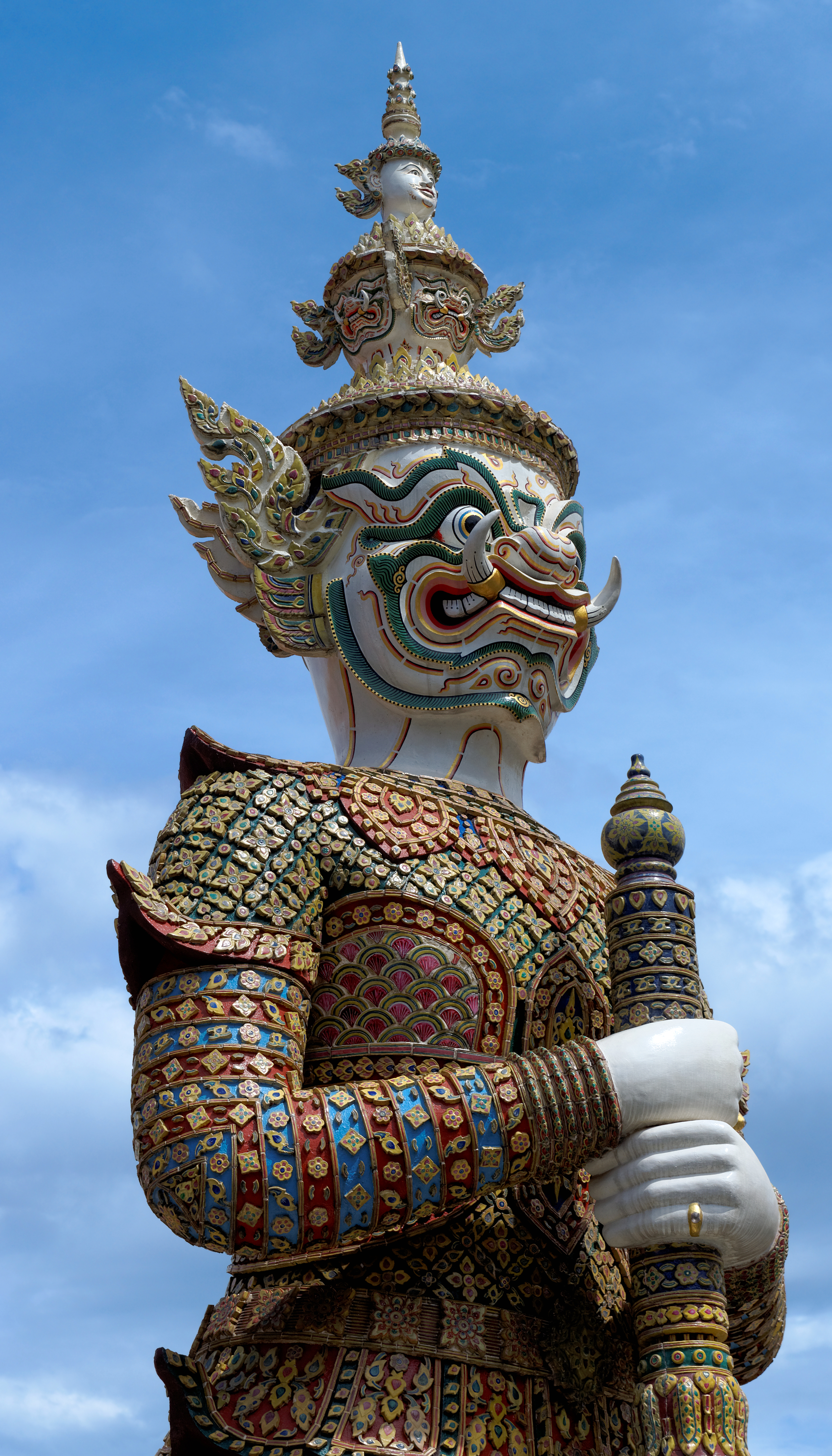 Guardian of Wat Phra Kaew Temple in Bangkok